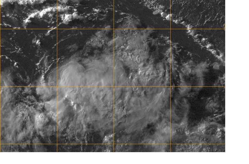 Tropical Storm Carlos on the night of July 15th, 2009 showing a fresh blowup of convection